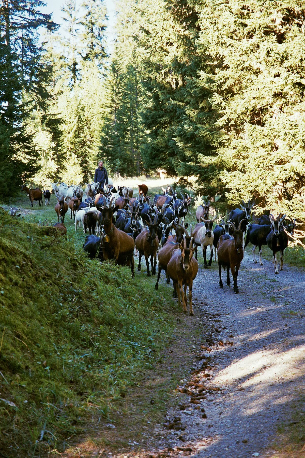 Wie oft in gemischtrassigen Herden: Die beweungshunrigen Gämsfarbigen vorneweg, die "lauffaulen" Toggenburger und Saaneziegen am Ende der Herde.